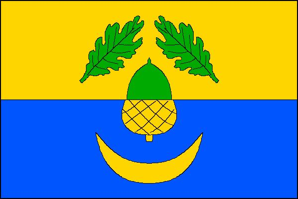 Flag of Dubčany , Olomouc District